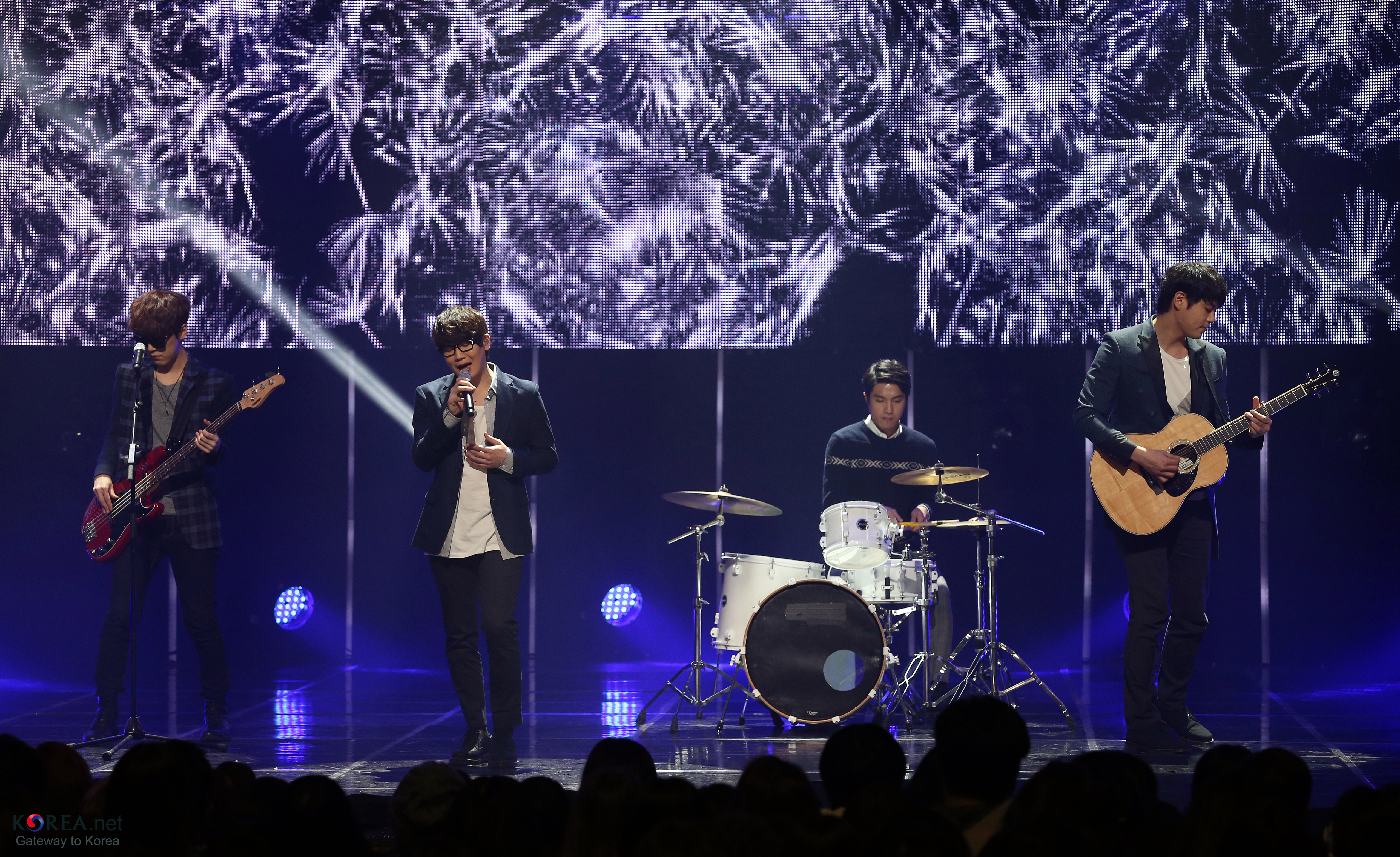 Mcountdown Nell Kim Jong Wan, Lee Jae Kyong, Lee Jung Hoon, Jung Jae Won CJ E&M Center, Sangam-dong, Mapo-gu, Seoul 2014.03.06. Ministry of Culture, Sports and Tourism Korean Culture and Information Service Jeon Han 엠카운트다운 생방송 넬 ‘지구가 태양을 네 번’ 김종완, 이재경, 이정훈, 정재원 2014-03-06 CJ E&M 센터 문화체육관광부 해외문화홍보원 코리아넷 전한